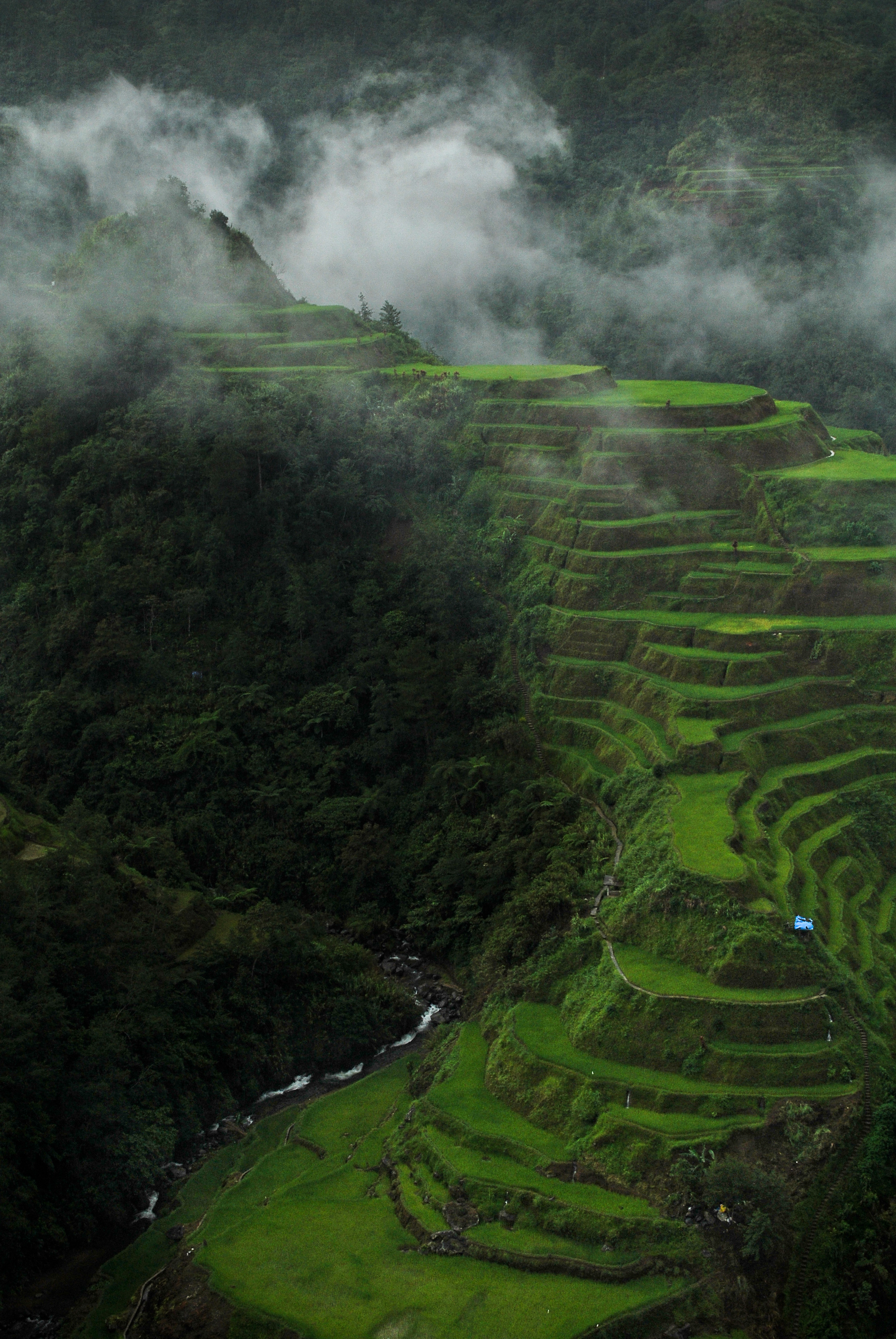 Image of Banaue rice terraces taken after the rice planting season.